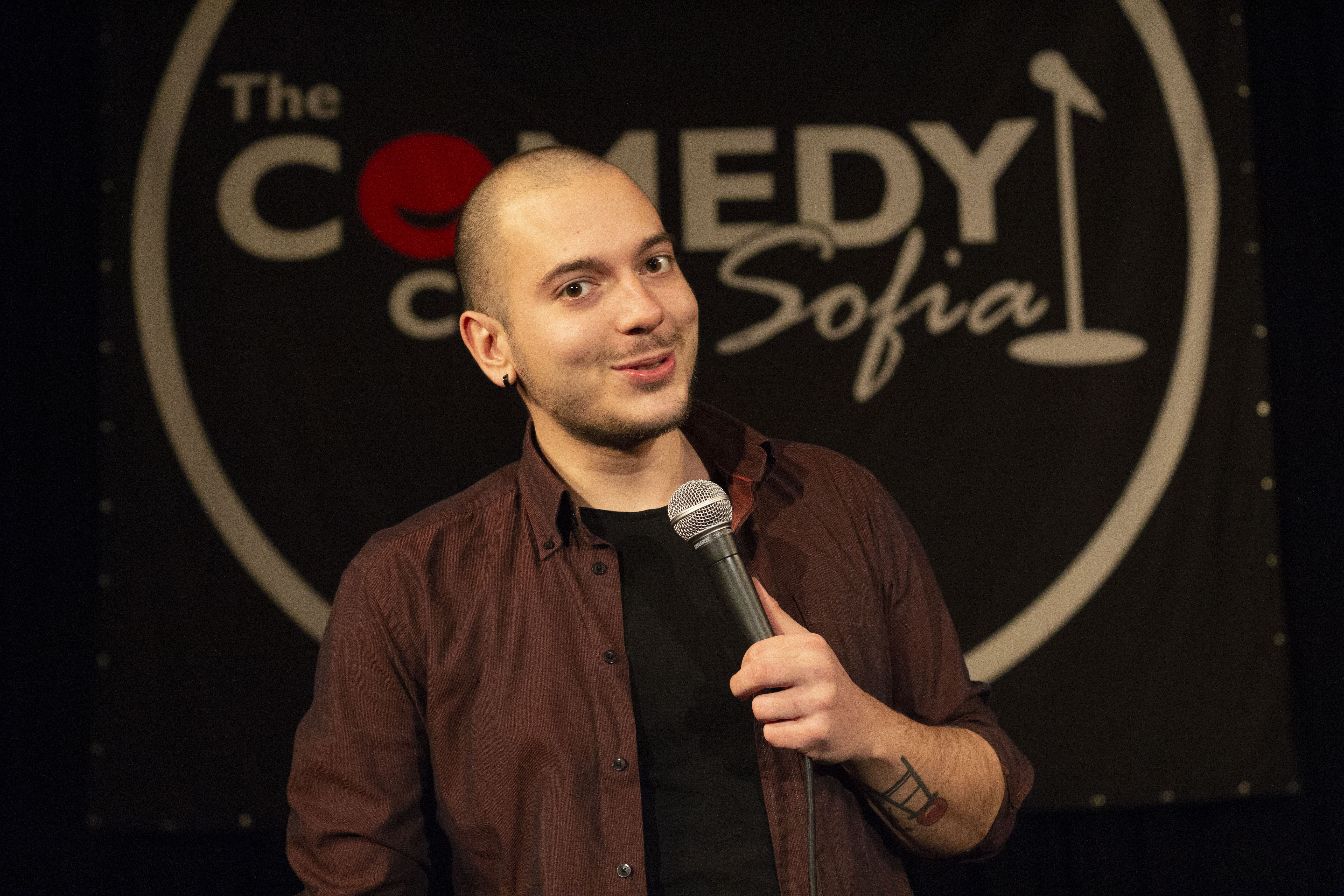 Николаос Цитиридис на шоу в Зала 1 НДК